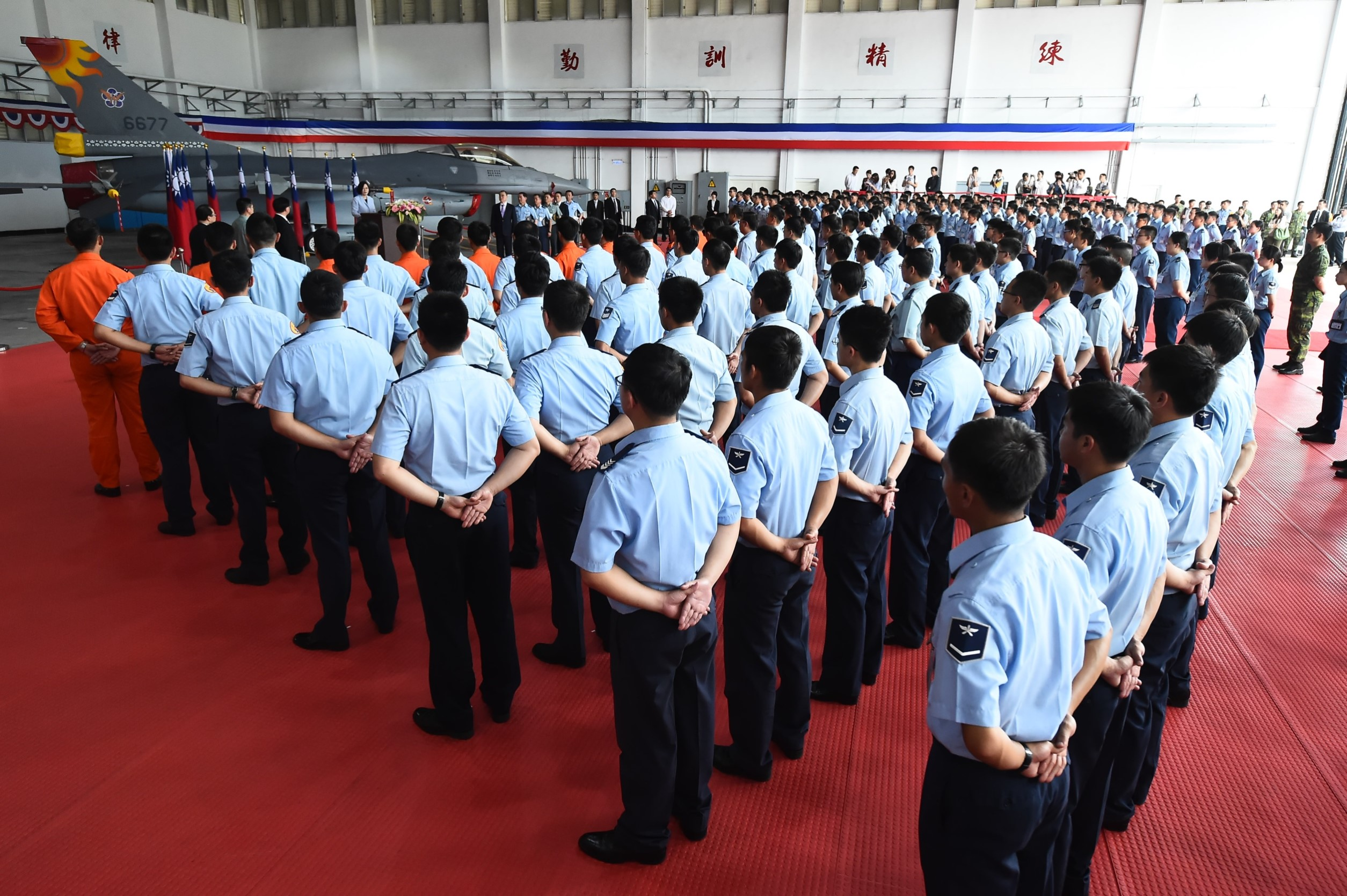 President Tsai makes her first inspection of Jiashan Air Force Base in Hualien County in her capacity as commander-in-chief.